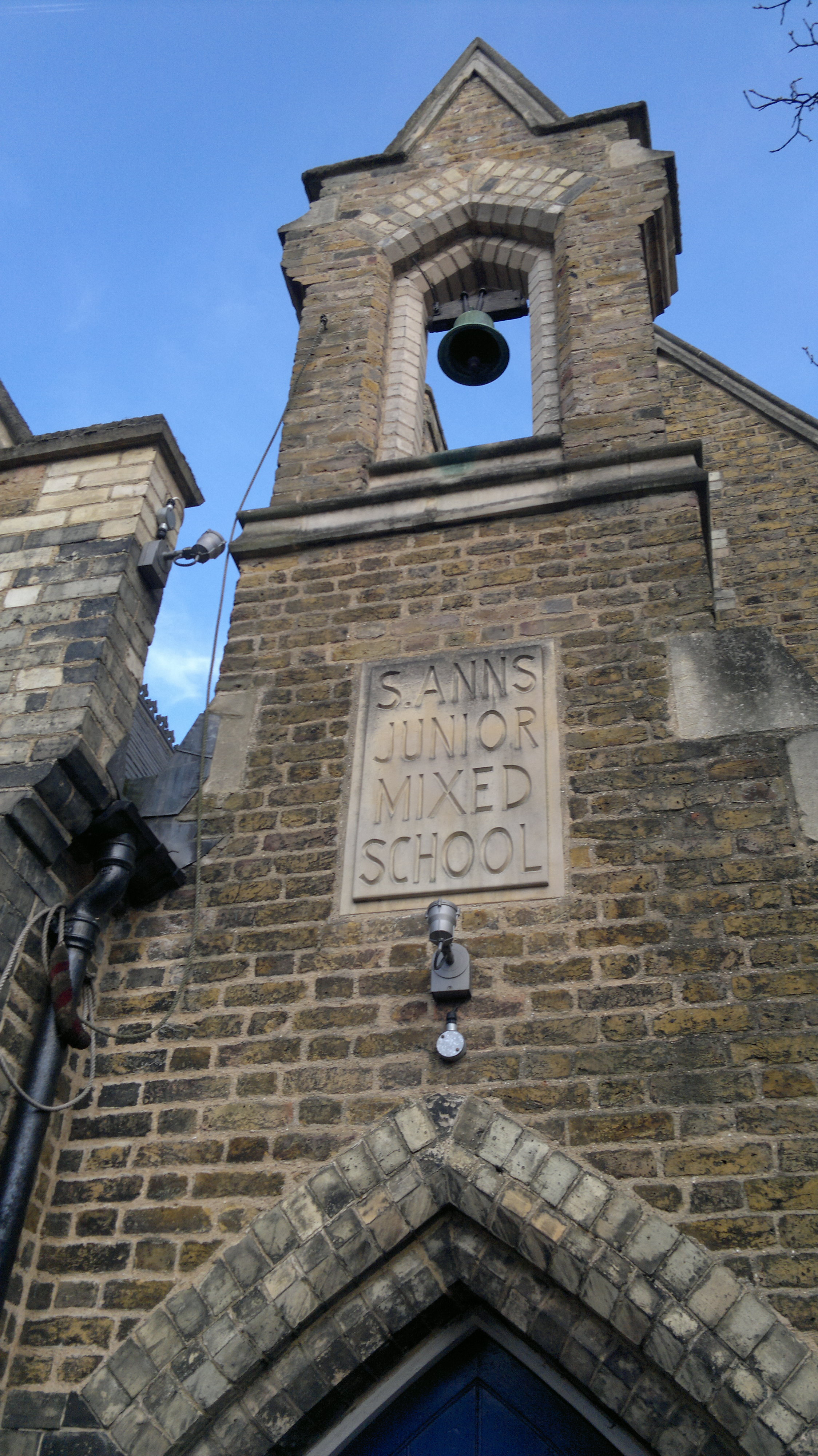 The refurbished bell gable at Fowler Newsam Hall, Avenue Road, London N15, England